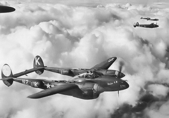 P-38s of the 361st Fighter Group